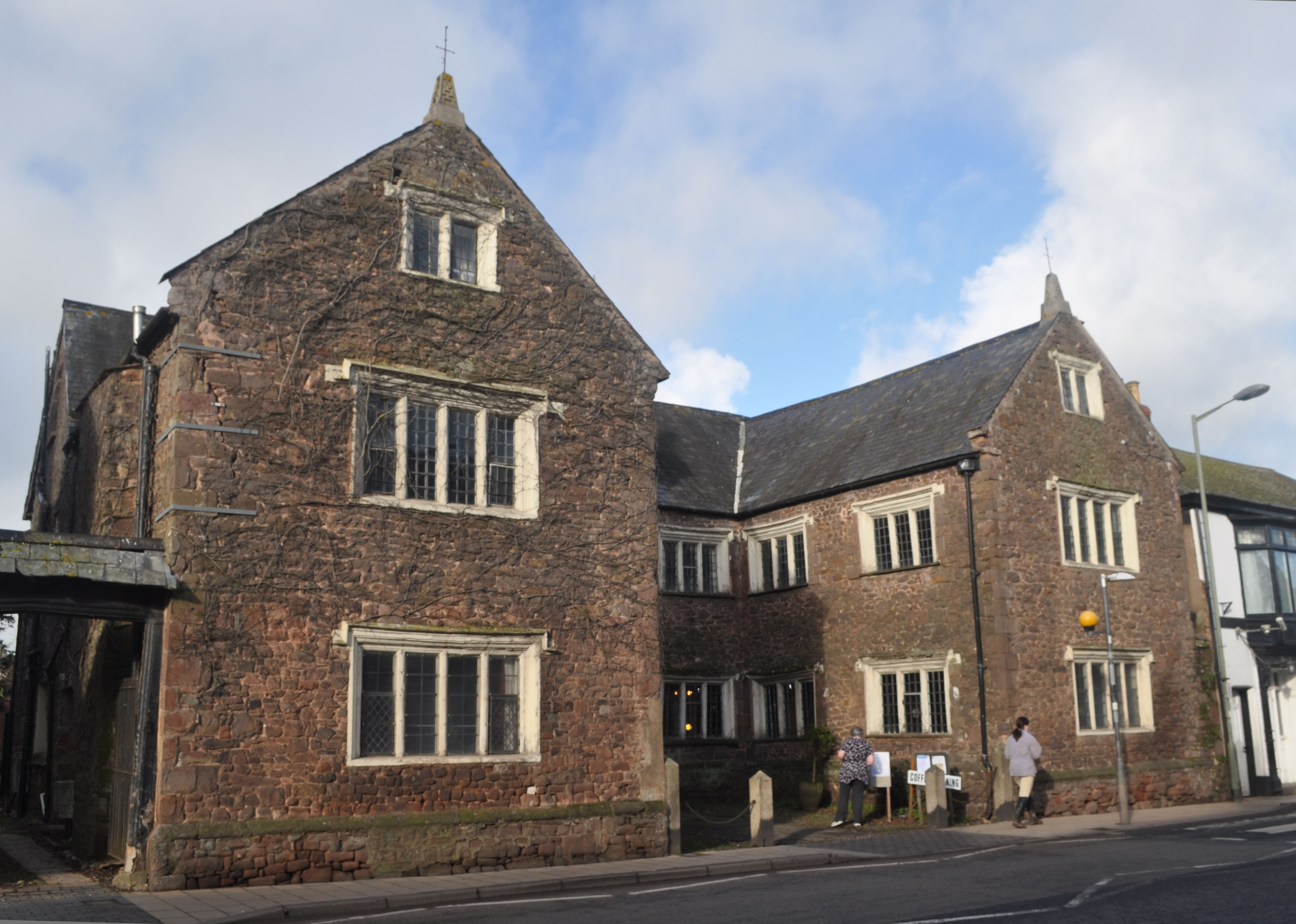 A photograph of the Tudor house The Walronds in Cullompton, Devon.